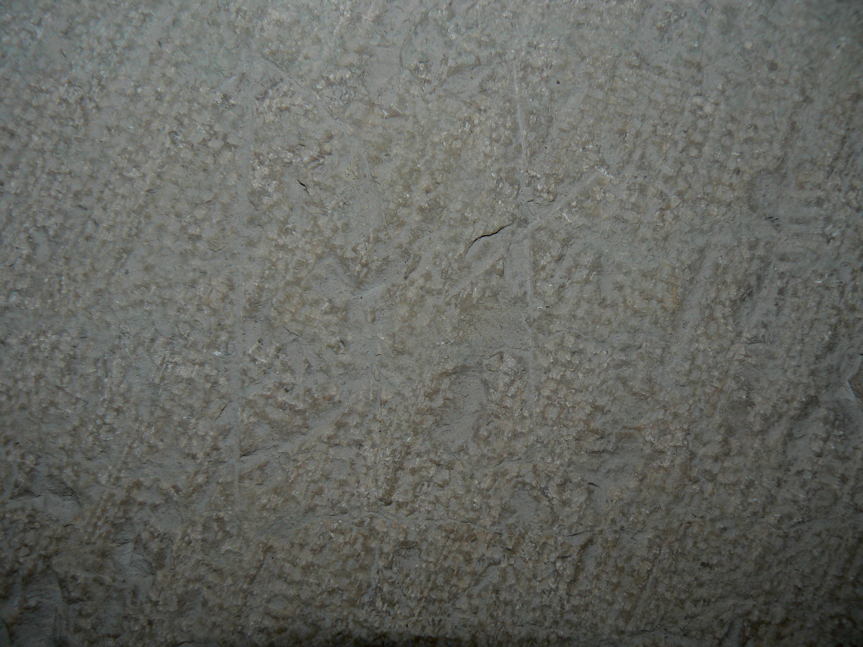 14th century stone cutter signature (runes) in Linköping cathedral, Sweden.